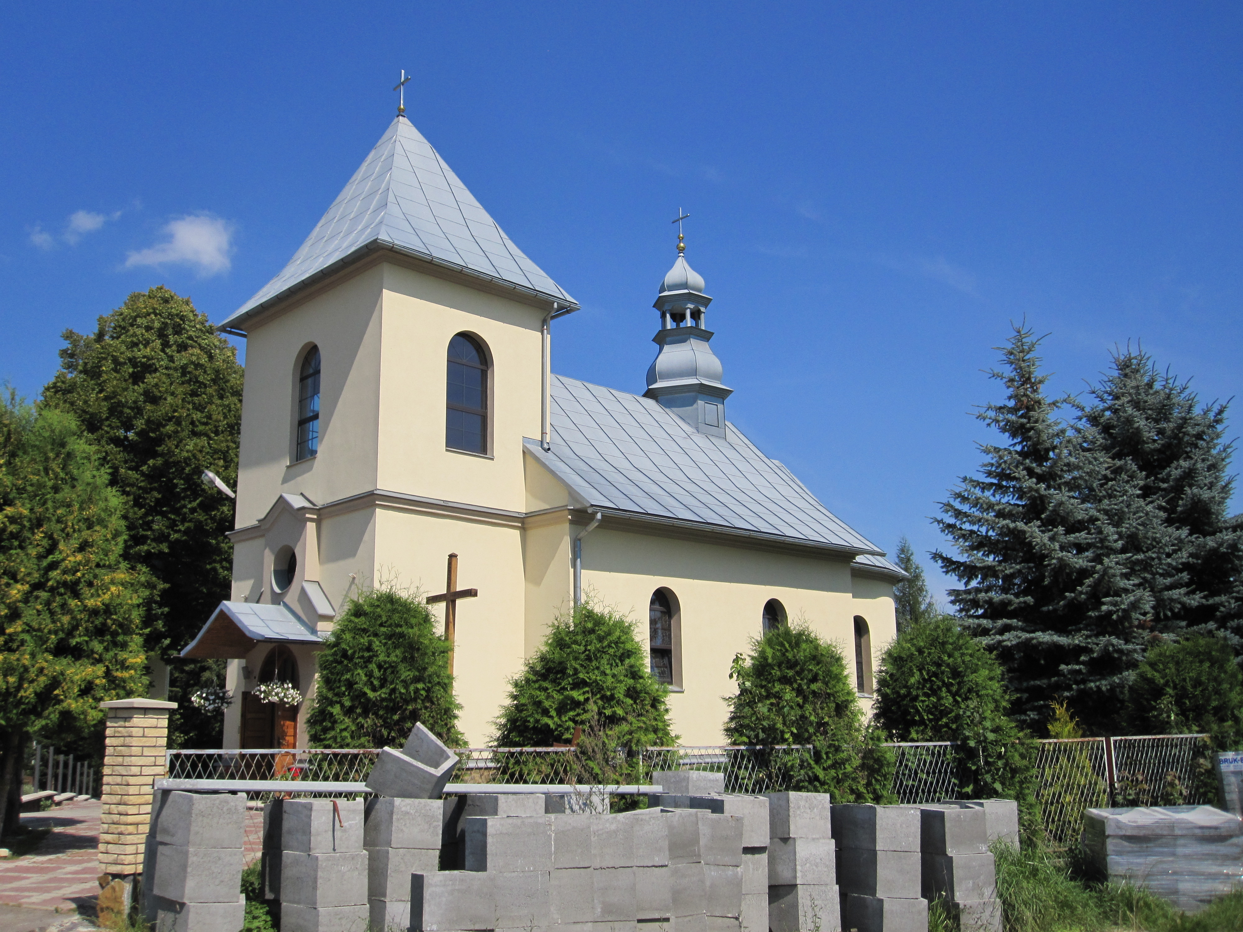 Church in Myczków village